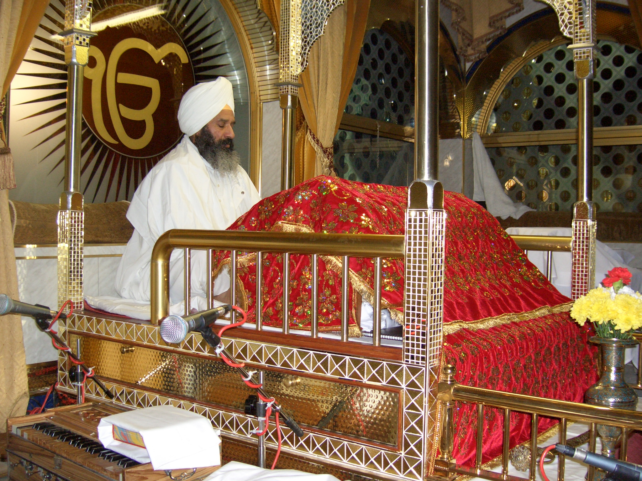 Sikhism Related Photo of a Sikh man in attendance to the Sri Guru Granth Sahib, the Sikh Holy scripture